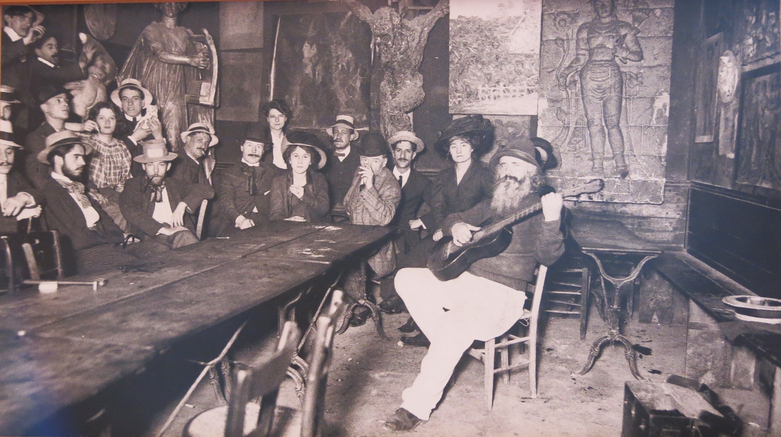 Cabaret of the Lapin Agile with the artists (Francisque Poulbot, Raoul Dufy, Adrien Barrère, Maurice Neumont, Auguste Roubille) listening Frédé Dad playing guitar (Paris 18th arrond., France) . Preserved in Montmartre museum.